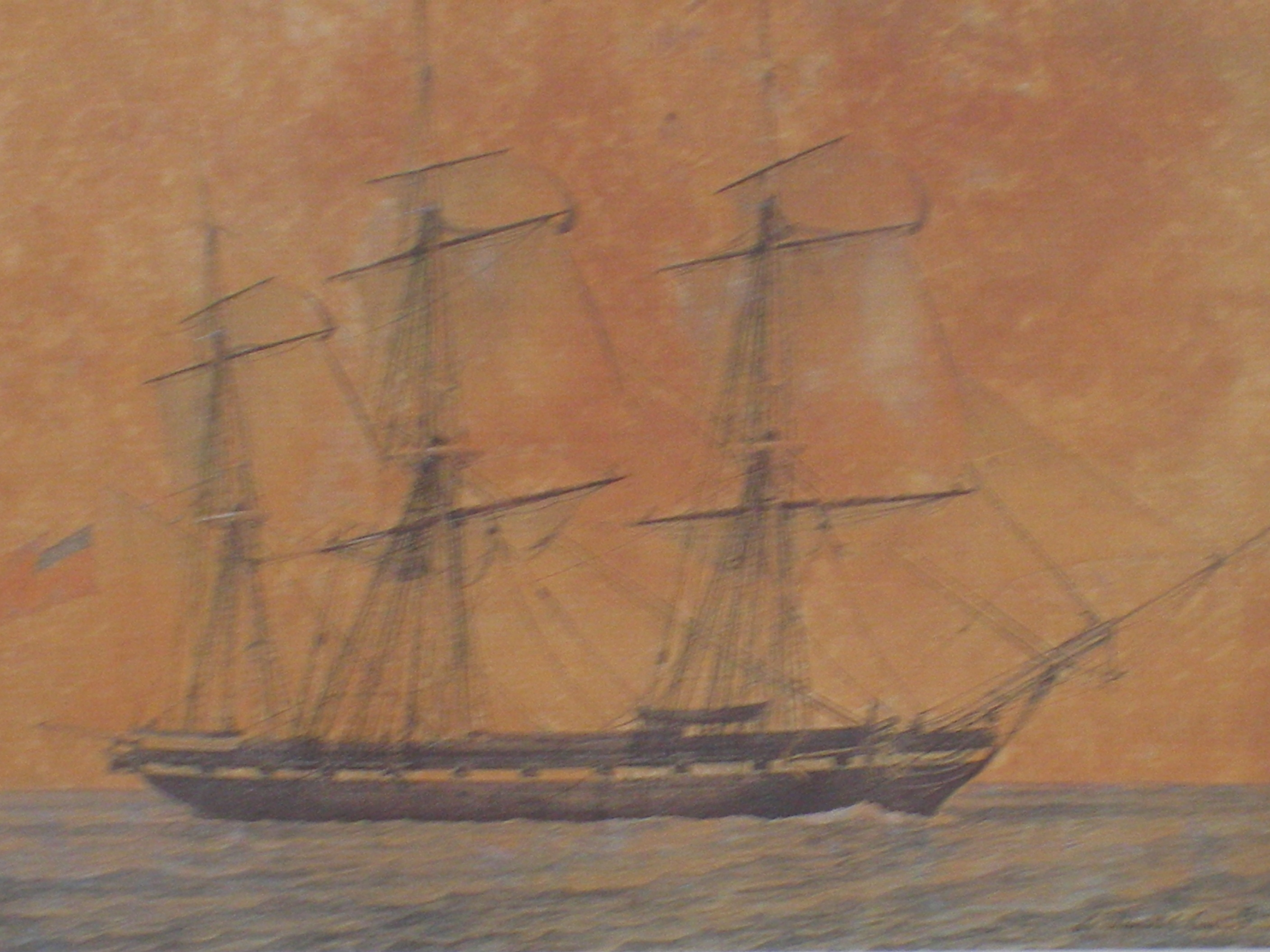 Photo personnelle / own picture. Aquarelle de la / Watercolour of corvette Themistocle appartenant à /belonging to Iakovos Tombazis (Hydra). Navire de la guerre d'indépendance grecque. Ship of the greek war of independence. Equipage / crew 110 hommes/men 18 canons.